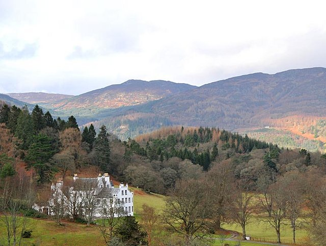 Aberuchill Castle Upper Strathearn behind